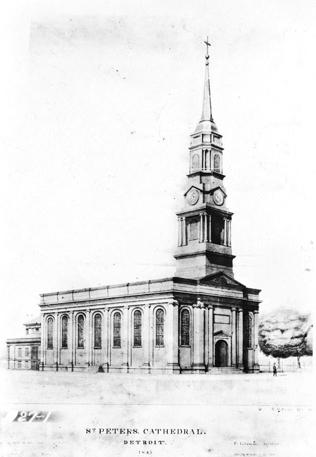 Saints Peter and Paul Church — original 1844 plan, Detroit, Michigan. Historic American Buildings Survey—HABS image.